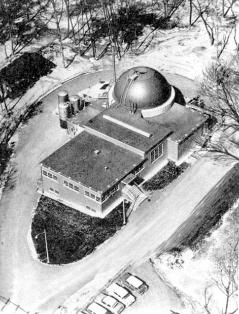 Earlier photo of SM-1 Nuclear Power Plant